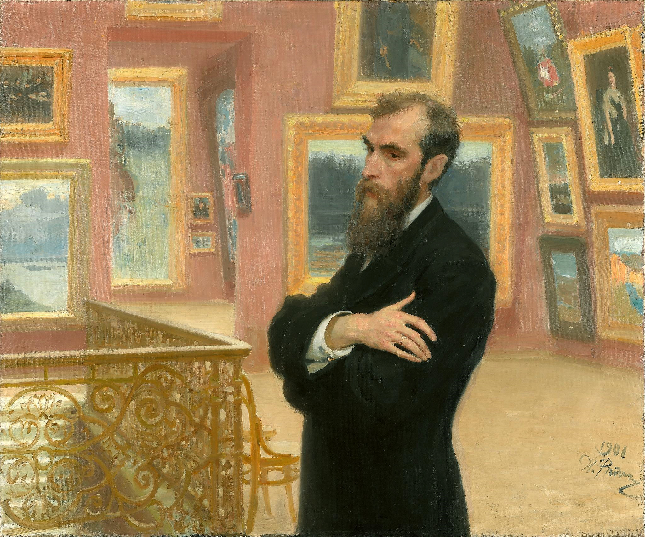 Portrait of Pavel Mikhailovich Tretyakov, founder of the Gallery